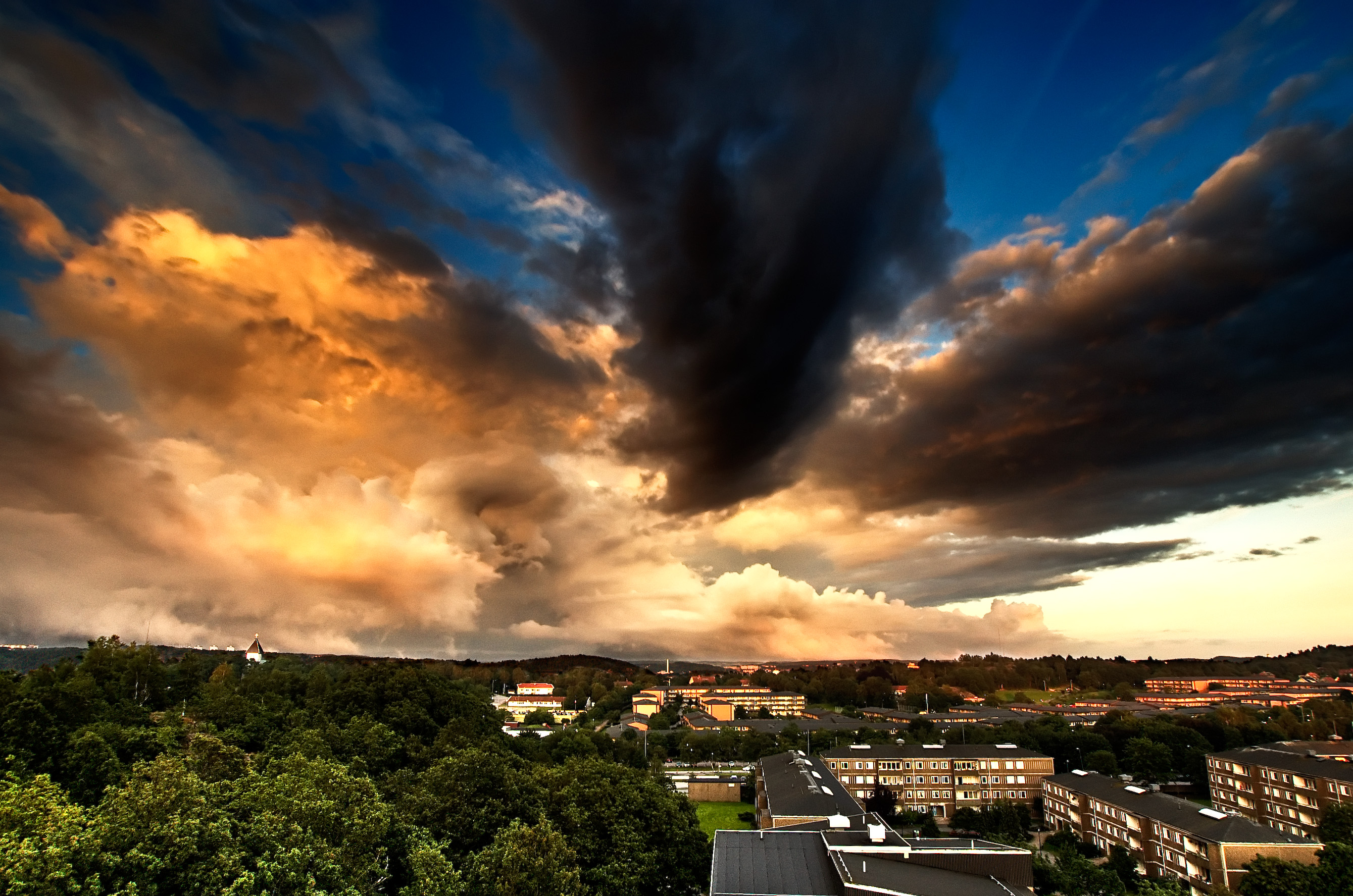 An example of a High Dynamic Range (HDR) photography, made of three different exposures. View of the sunset from Hisings Backa, in the neighborhood of Gothenburg, Sweden.